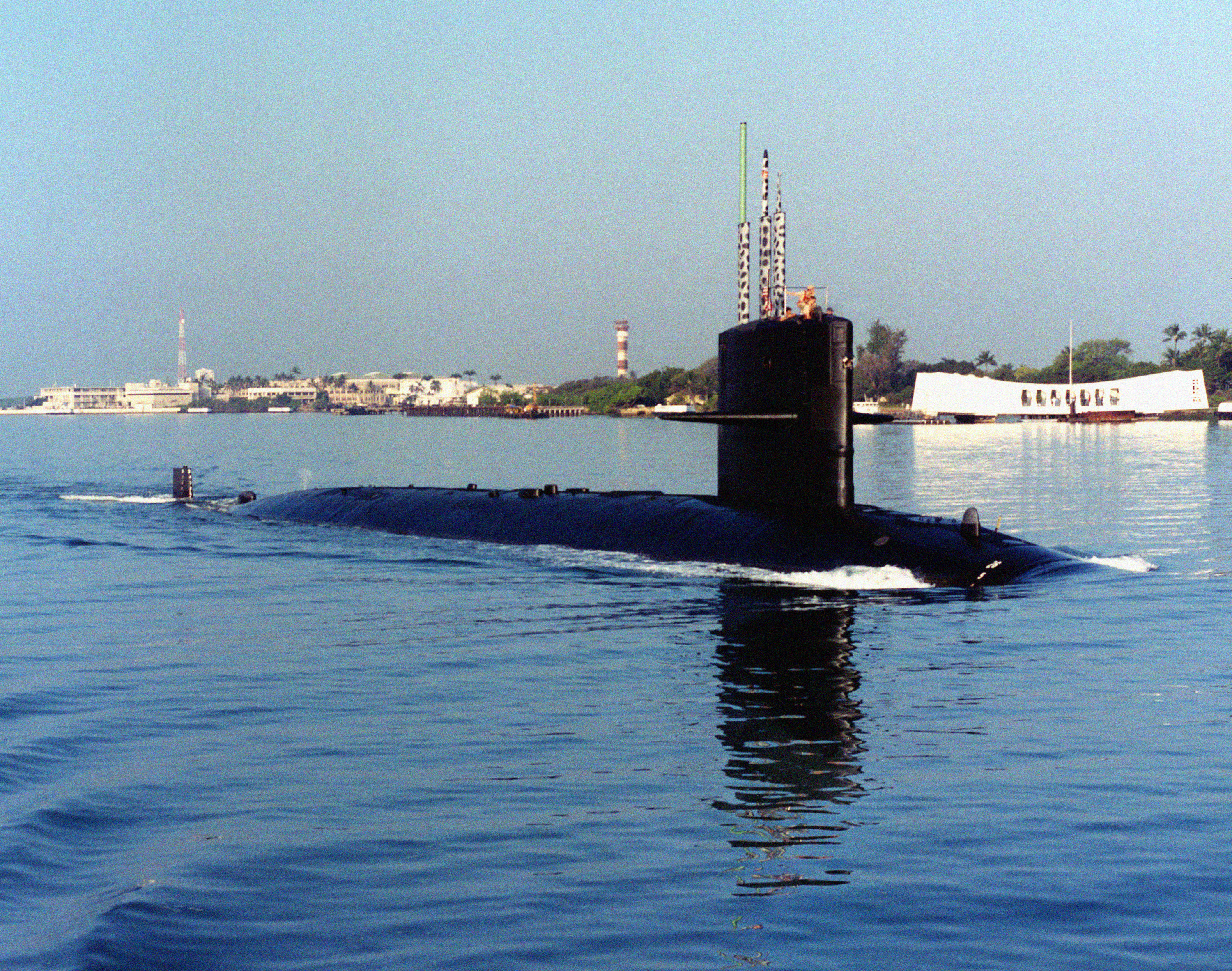 Starboard bow view of the US Navy (USN) STURGEON CLASS: Attack Submarine, USS CAVALLA (SSN 684), underway as it exits the harbor at Naval Station Pearl Harbor, Hawaii (HI). The USS Arizona Memorial is visible in the background.Location: NAVAL STATION PEARL HARBOR, HAWAII (HI) UNITED STATES OF AMERICA (USA)